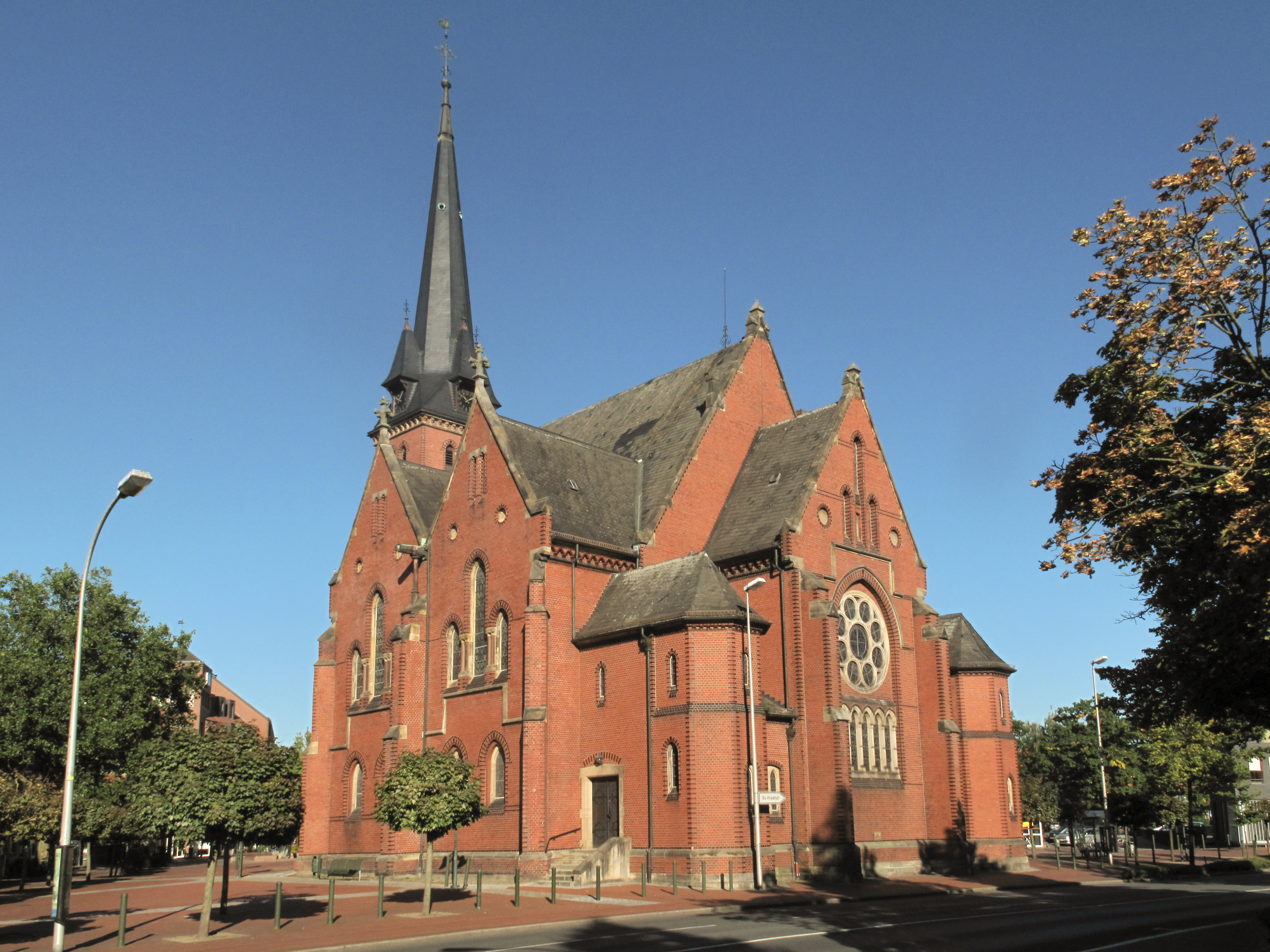 Gronau, church: die evangelische Stadtkirche This is a photograph of an architectural monument., no. 3